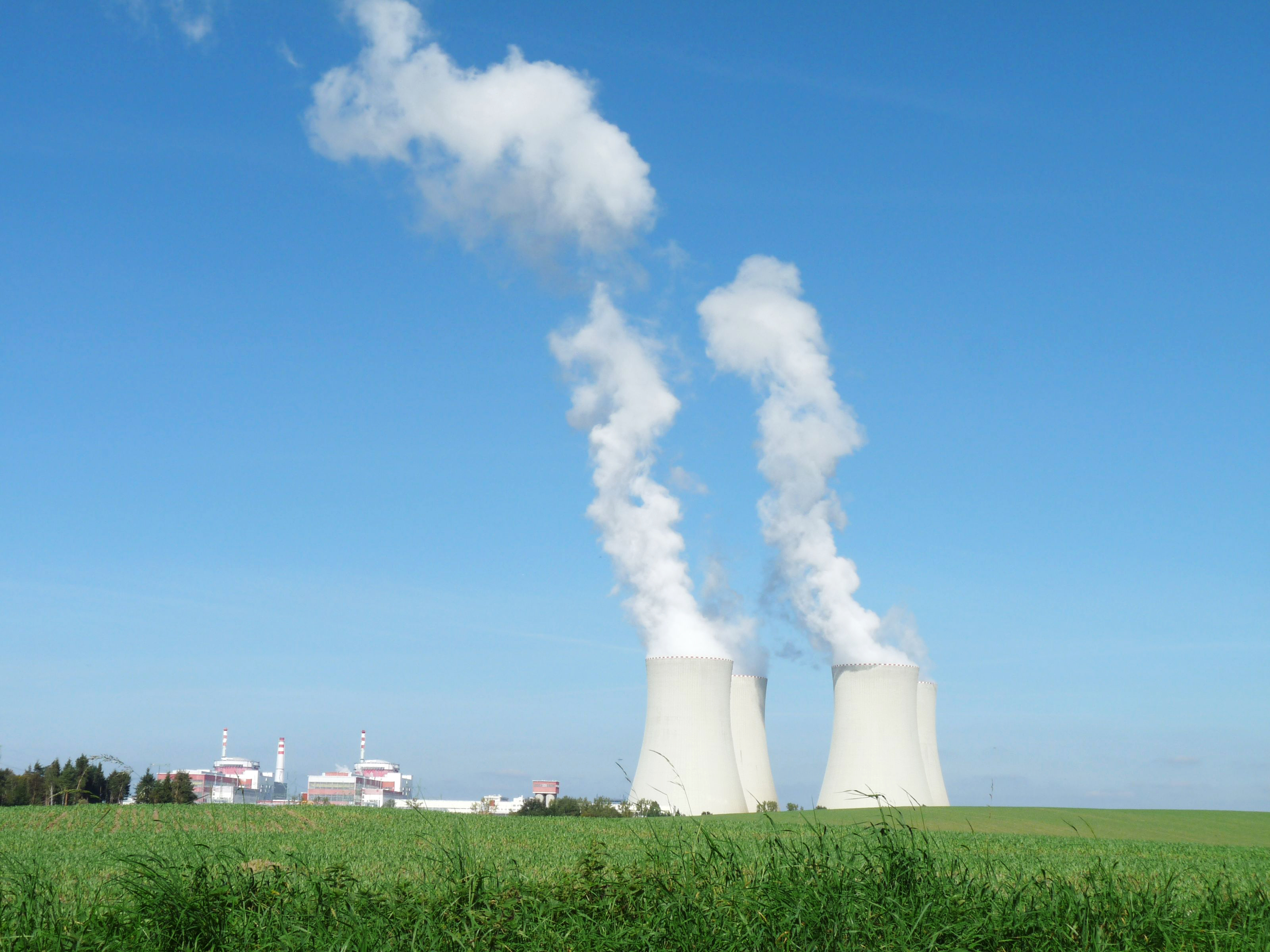 Nueclear power plant Temelín as seen from the village of Kočín, České Budějovice District, South Bohemian Region, Czech Republic.